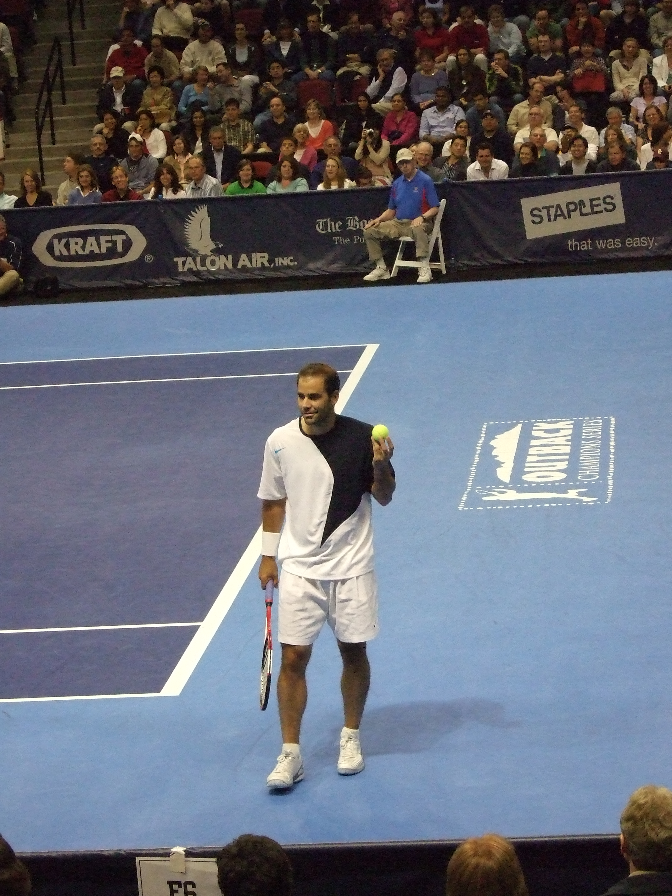 Pete Sampras at Champions Cup Boston